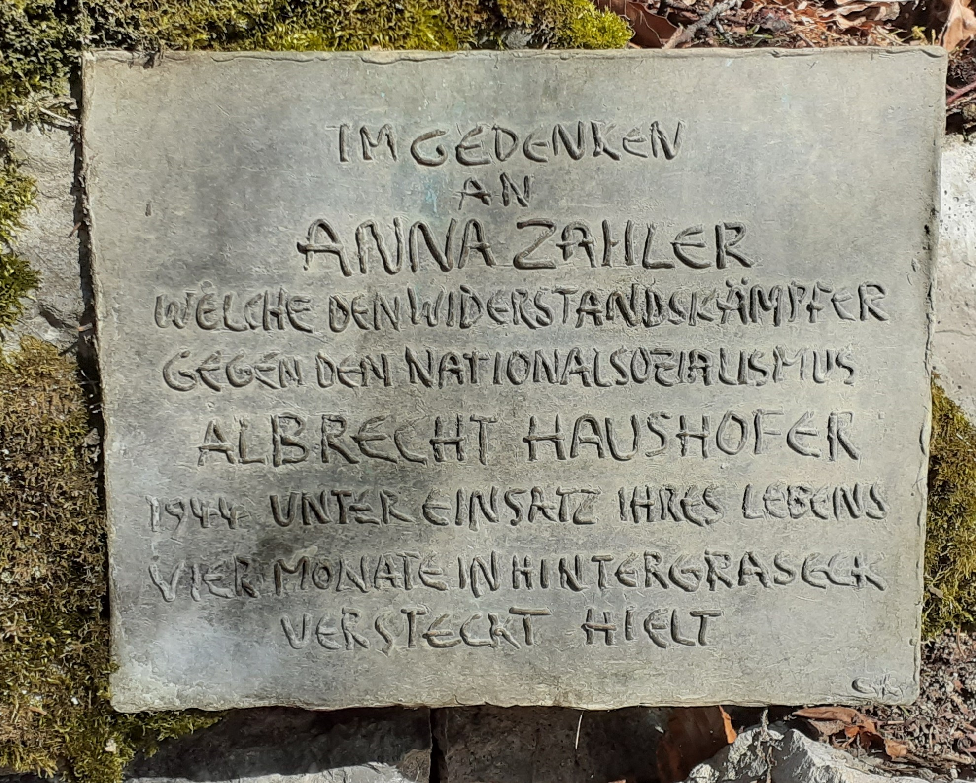 Commemorative plaque honoring Anna Zahler, who gave shelter to Albrecht Haushofer trying to escape the Nazi regime Аҧсшәа: Gedenktafel zur Erinnerung an Anna Zahler, die 1944 die 1944 den Widerstandskämpfer Albrecht Haushofer vier Monate unter Lebensgefahr bei sich versteckt hat